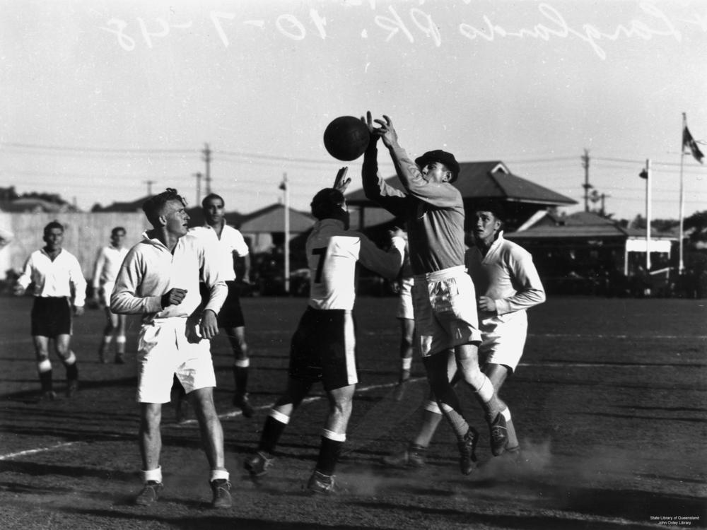 Soccer game at Langlands Park, Wooloongabba, Brisbane, 1948 Action shot of the Corinthians Soccer Team competing against the Bundamba Soccer Team at Langlands Park, Wooloongabba.